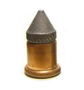 An image of the .22 CB Cap cartridge